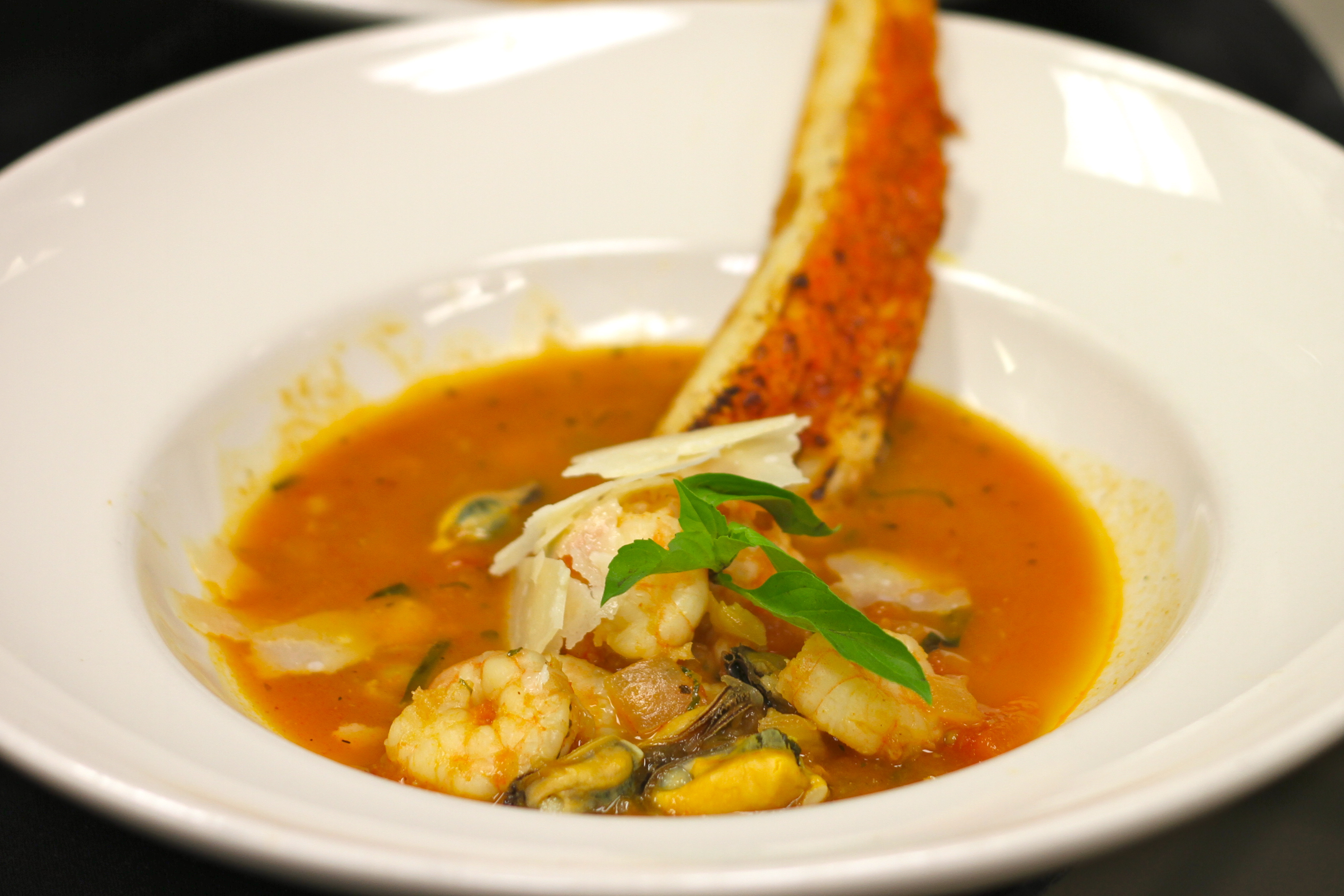 Second Course- Cioppino with Salmon, Shrimp, Mussels, Clams, Bacalao, Tomato Lobster broth